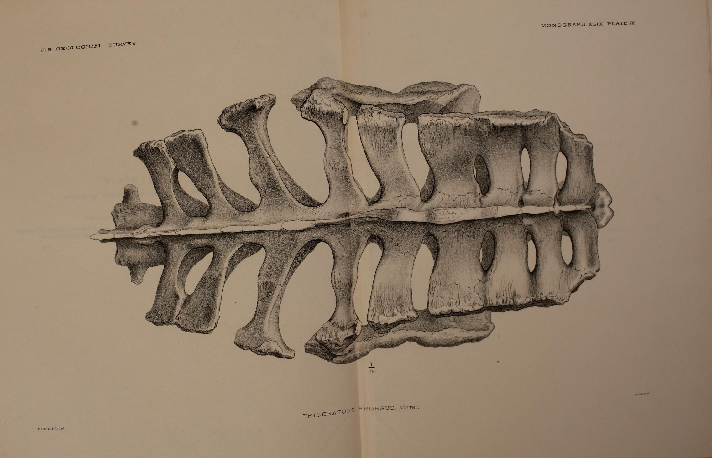 Triceratops prorsus Marsh.